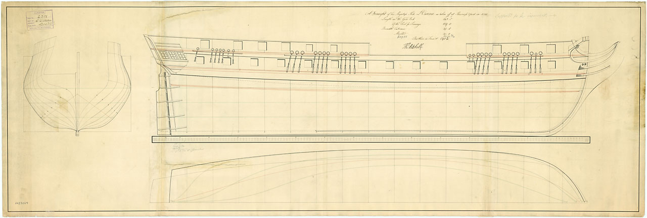 OISEAU 1793 lines Signed by Thomas Mitchell [Master Shipwright, Sheerness Dockyard, 1795-1801]. NMM, Progress Book, volume 5, folio 253, states that 'Oiseau' arrived at Sheerness Dockyard on 11 June 1800 and was docked on 24 June. She was undocked on 5 August and sailed on 29 Septmeber 1800 having made good the defects.